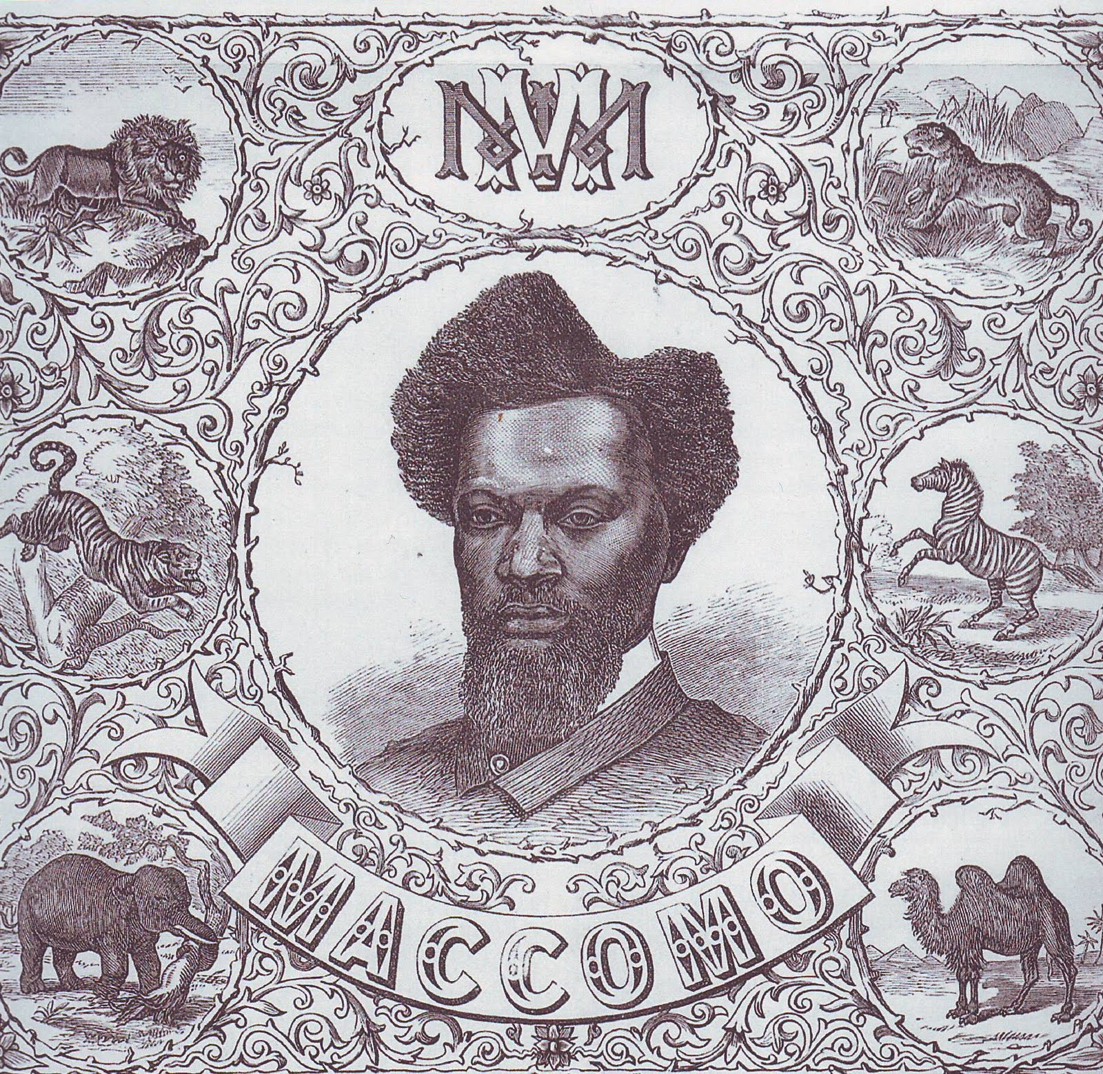 Poster advertising the lion tamer, Martini Maccomo